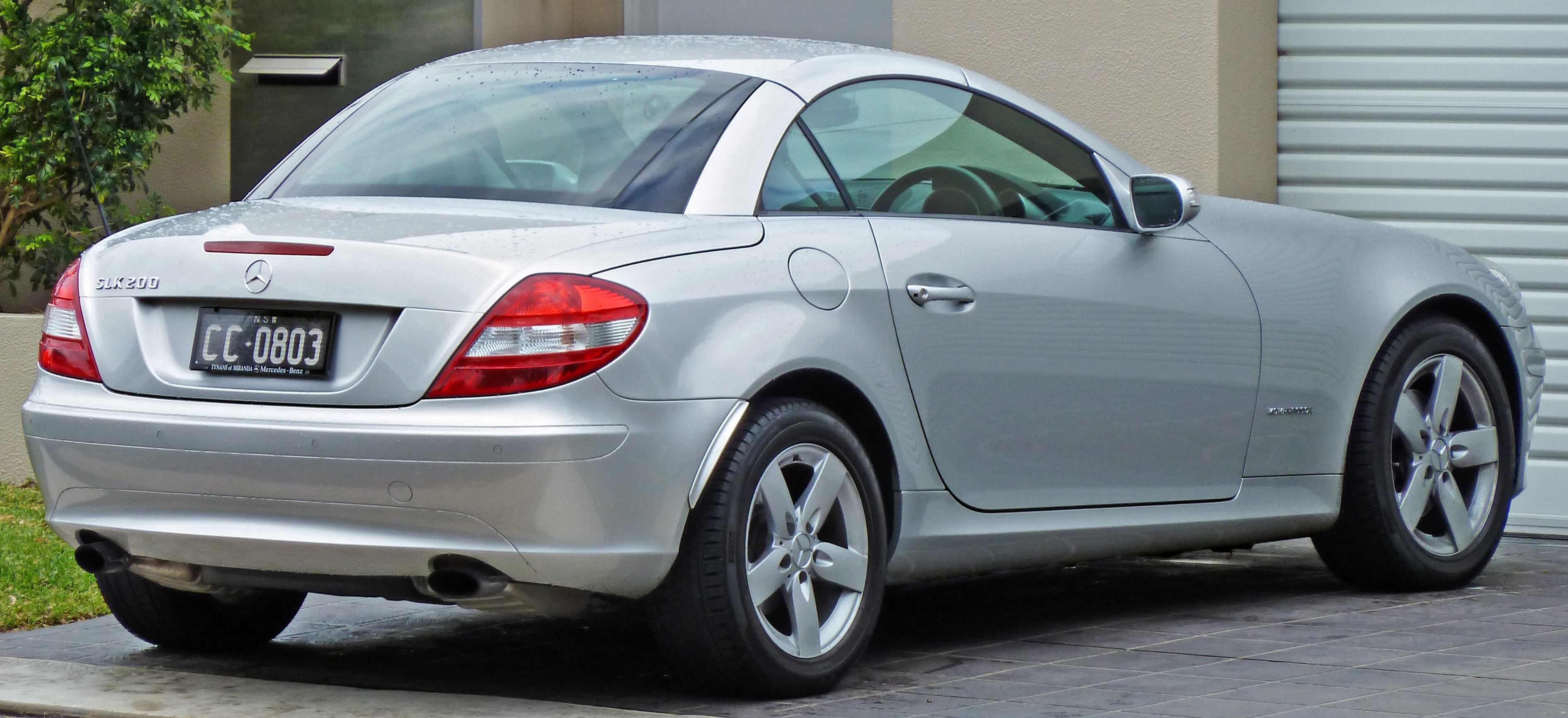 2004–2008 Mercedes-Benz SLK 200 Kompressor (R 171) roadster. Photographed in Sandringham, New South Wales, Australia.